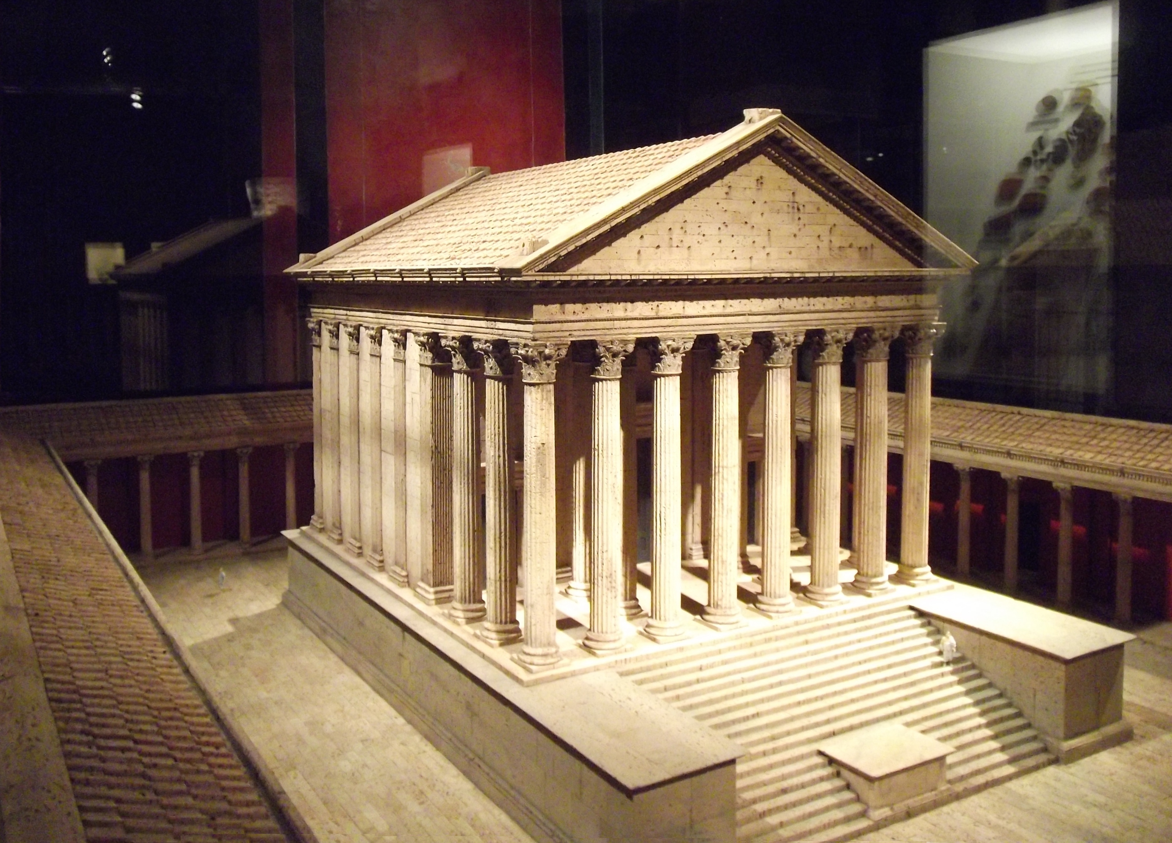 Front-side view of a model of the Cologne Capitol at Cologne Archaeological Zone, model built by Atelier Dieter Cöllen GmbH (2008) The Temple of the Capitoline Trias has been erected in the south-eastern corner of the city - likely under the emperors Trajan (98-117) or Hadrian (117-138). The foundations of the temple are mostly preserved under the later Romanesque church of St. Maria im Kapitol.